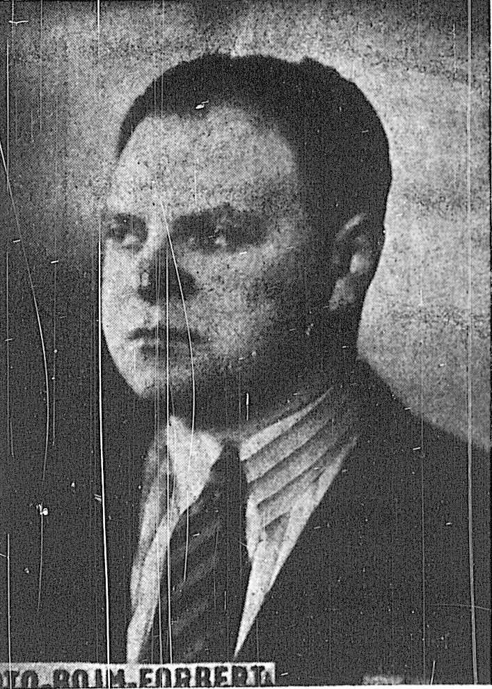 Rubin Feldschuh.